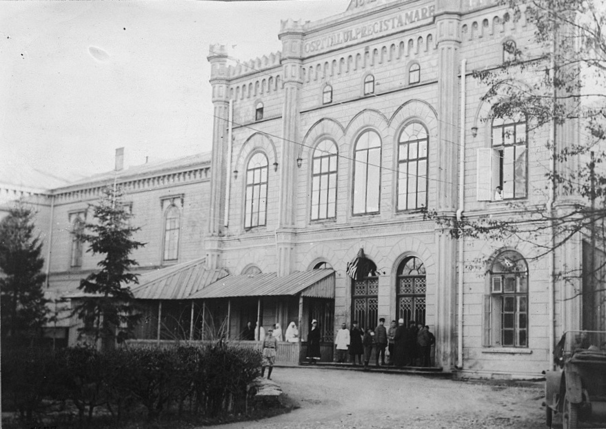 Another view of American hospital at Roman, Romania